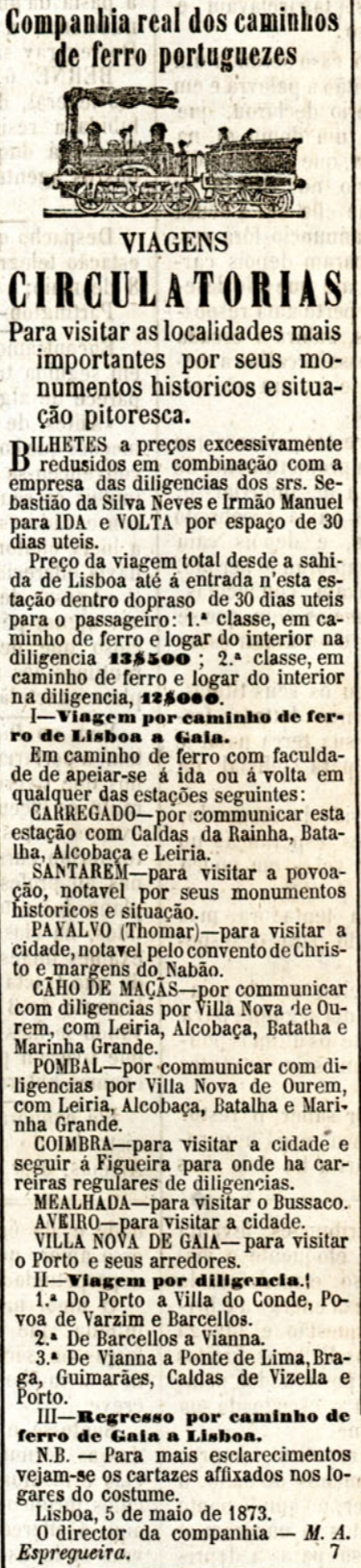 Advertisement of the Companhia Real dos Caminhos de Ferro Portugueses (Royal Company of the Portuguese Railways), in combination with several stagecoach companies, for return tickets at special prices to locations of historical, natural or cultural importance. This image was published on the Diario Illustrado newspaper No. 294, of 10th May 1873, and scanned by the Biblioteca Nacional de Portugal.